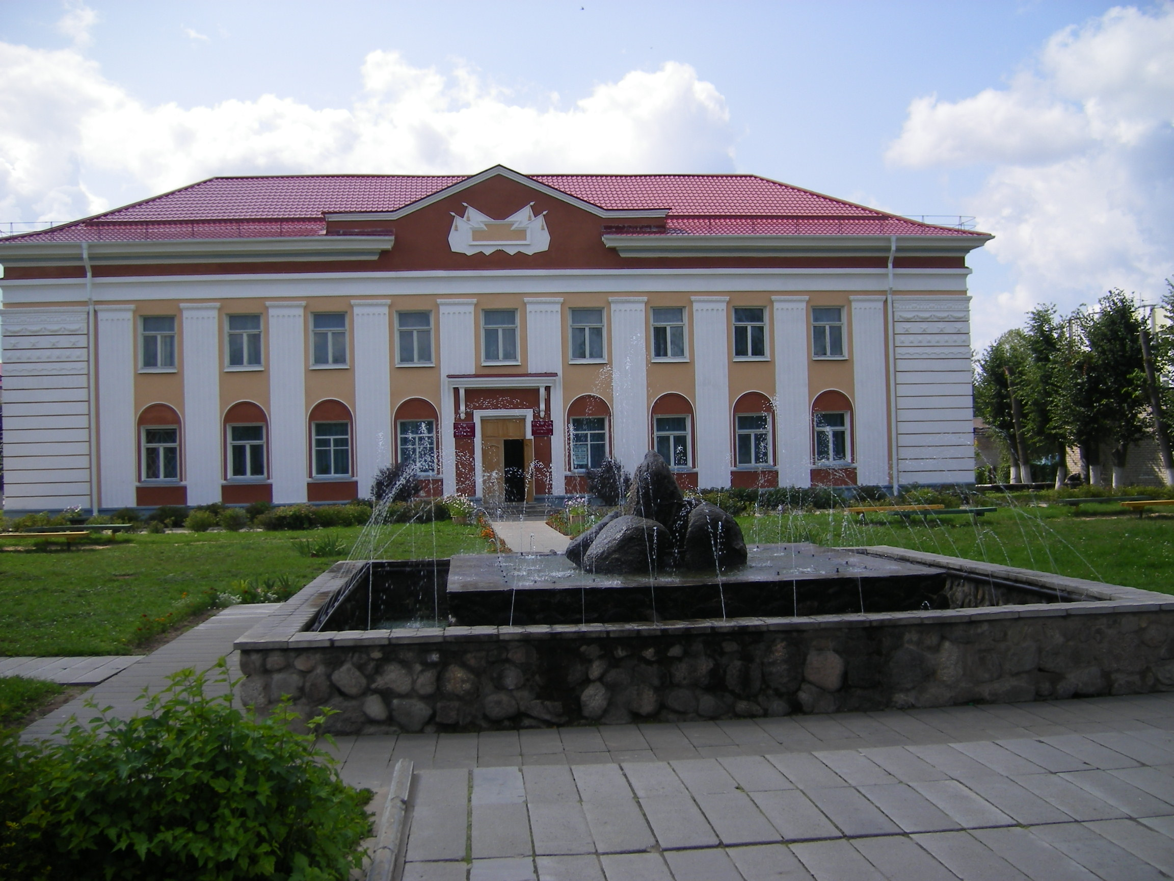 Shumilina, Raion Library Building